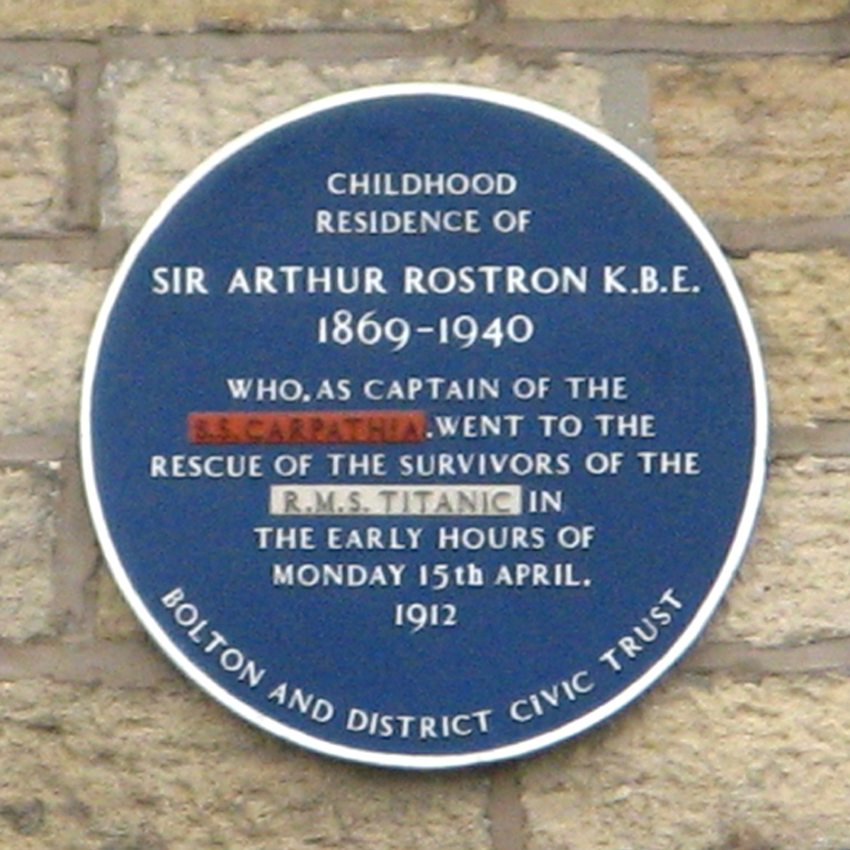 Arthur Rostron childhood home plaque